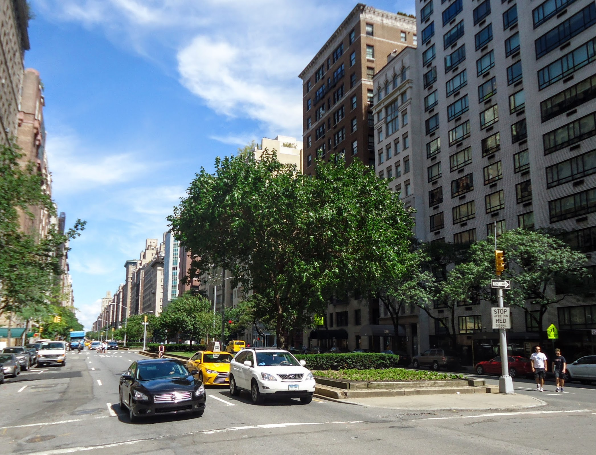 Early September 2016 a view of Park Avenue in NYC looking north from East 74th Street.